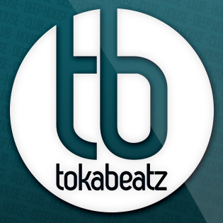 Tokabeatz Logo